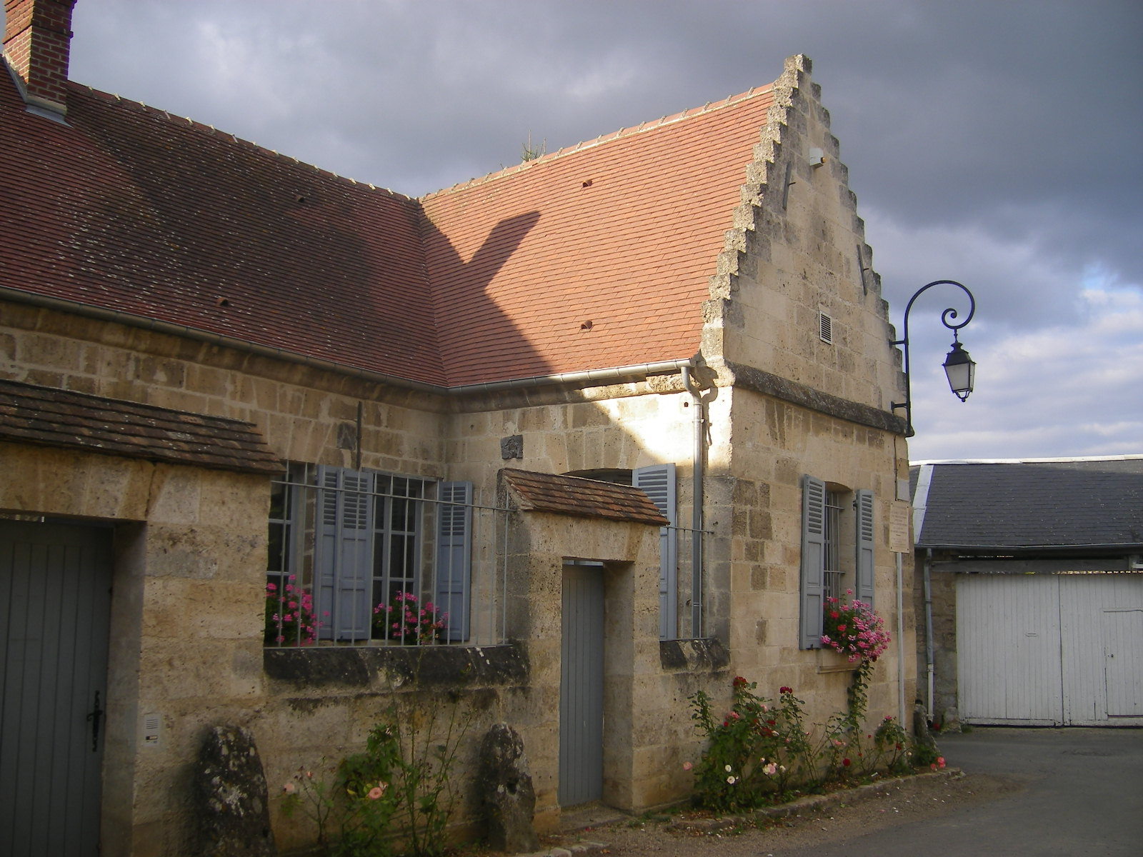 Blérancourt - ancient home of Antoine St.-Just, now tourist office and museum